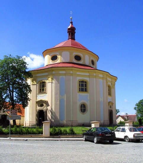 St. Vítus Church in Dobřany (Stod), Czechia